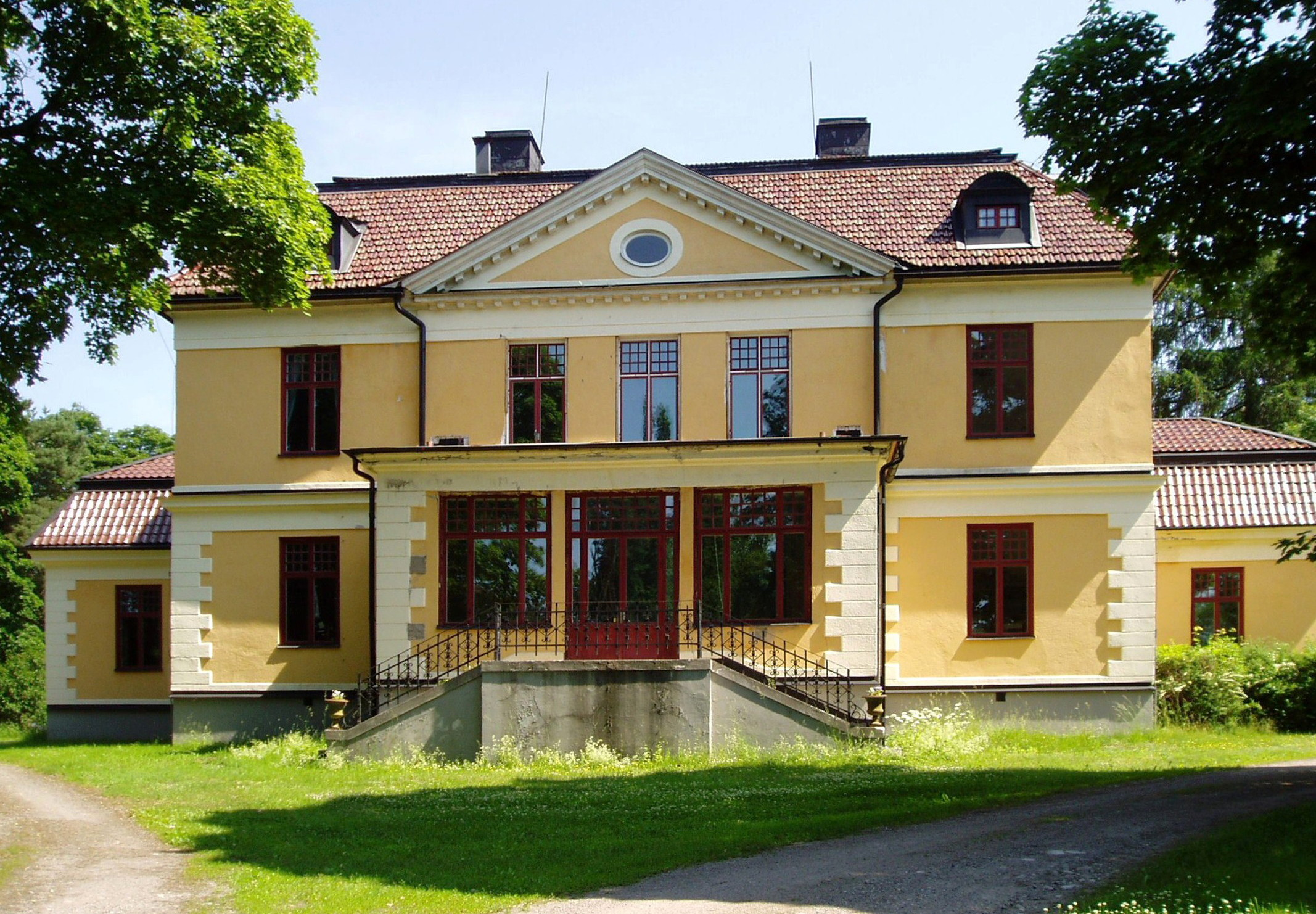 Sollentunaholm, mansion in Sollentuna municipality, Sweden